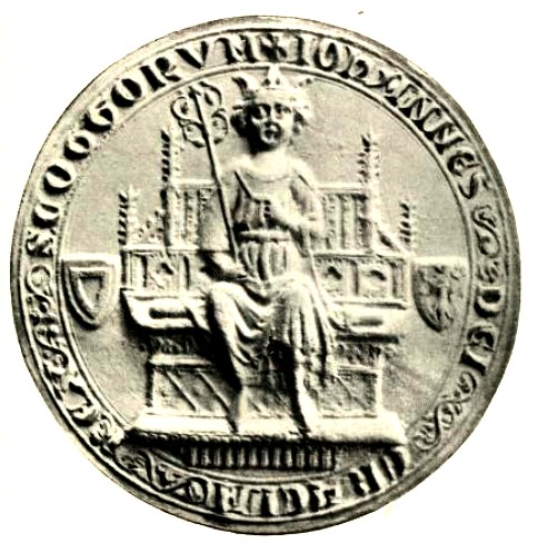 John of Scotland